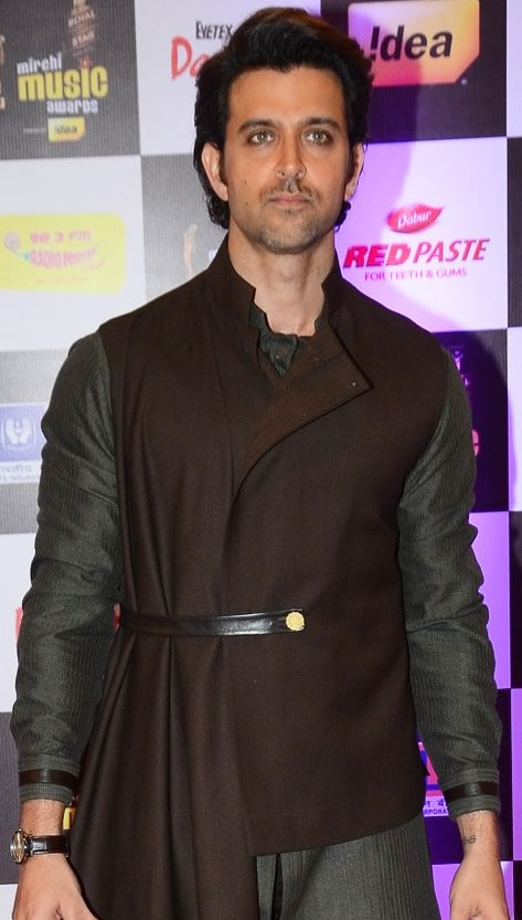 Hrithik Roshan at grace Mirchi Music Awards